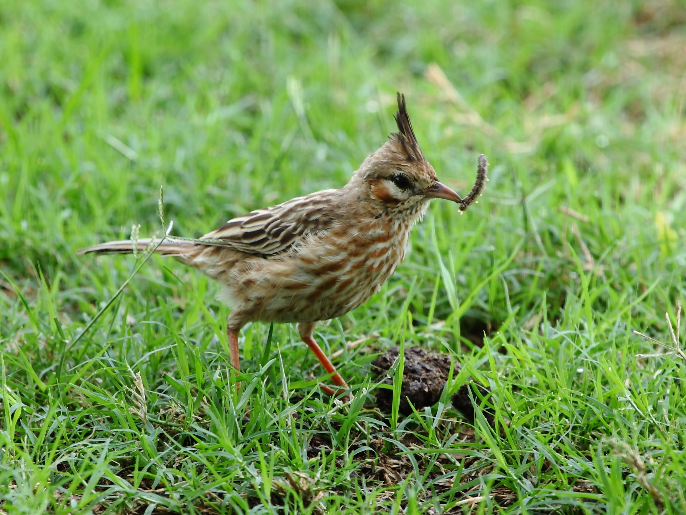 Lark-like Brushrunner feeding; Capivara, Santa Fe, Argentina